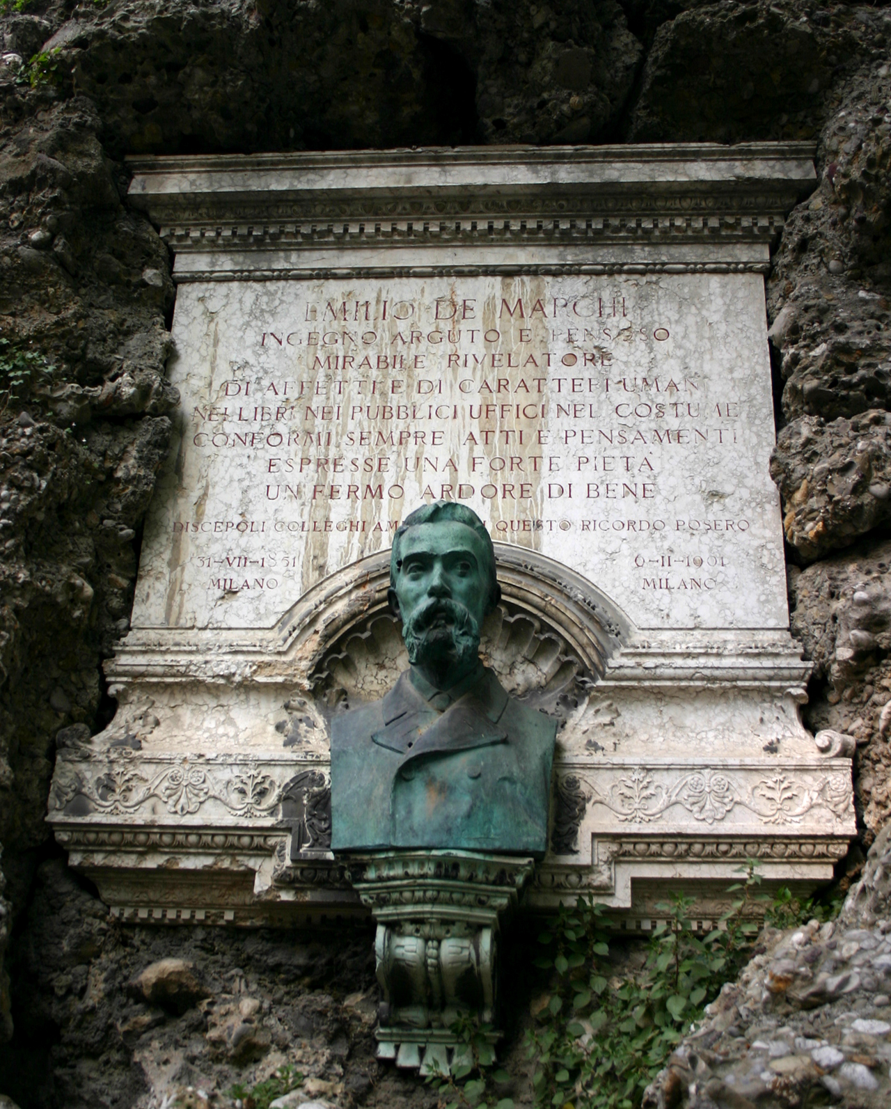 Monument for writer Emilio De Marchi (1851-1901), on the rocaille mound of the "Giardini pubblici di Porta Venezia" gardens, in Milan, Italy. Picture by Giovanni Dall'Orto, April 22 2007.